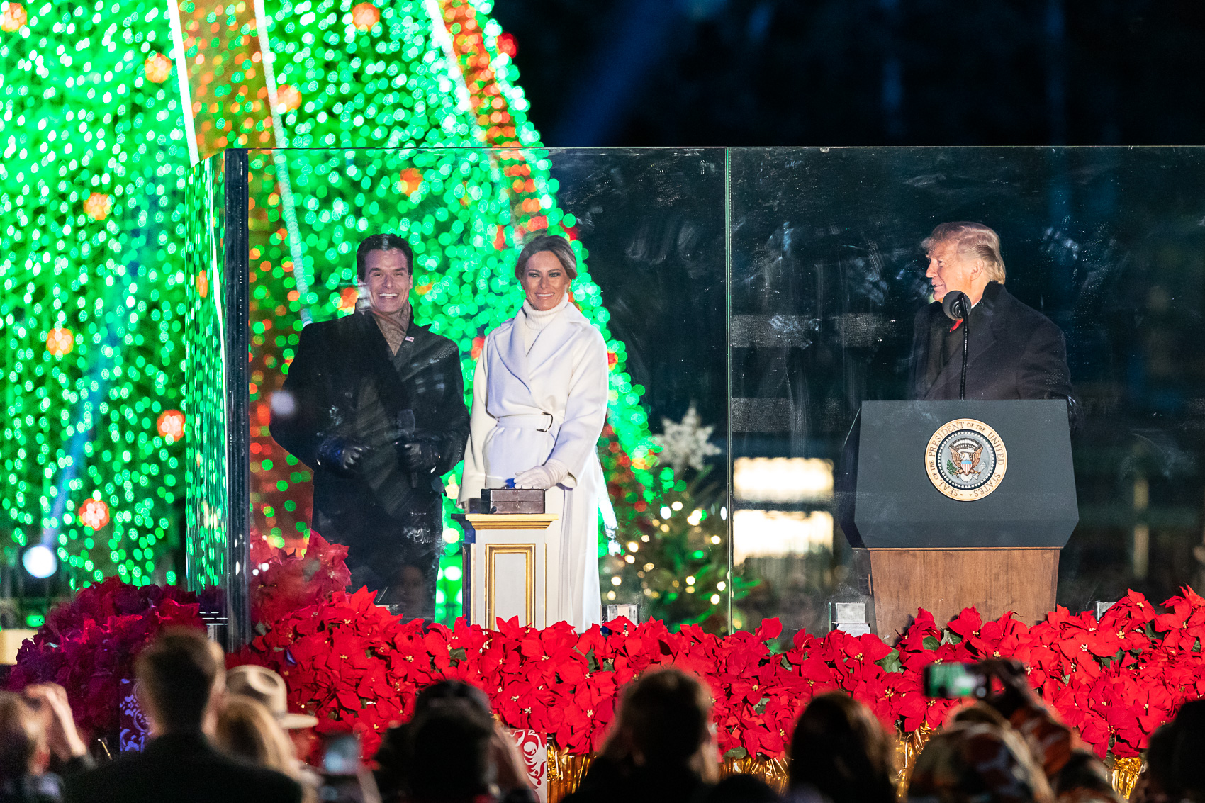 First Lady Melania Trump, joined by President Donald J. Trump and host Antonio Sabato Jr., presses the switch to light the National Christmas Tree Wednesday, Nov. 28, 2018, on the Ellipse in Washington, D.C. (Official White House Photo by Andrea Hanks)